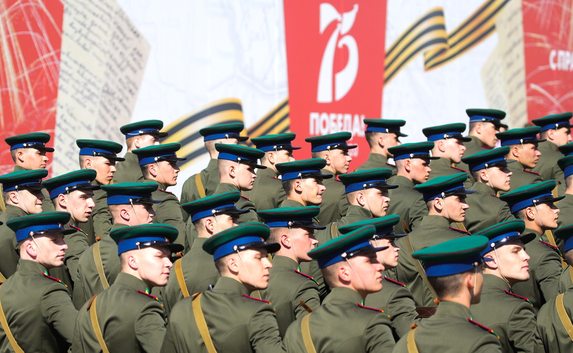 2020 Moscow Victory Day Parade Аҧсшәа: Военный парад на Красной площади в Москве 24 июня 2020 года